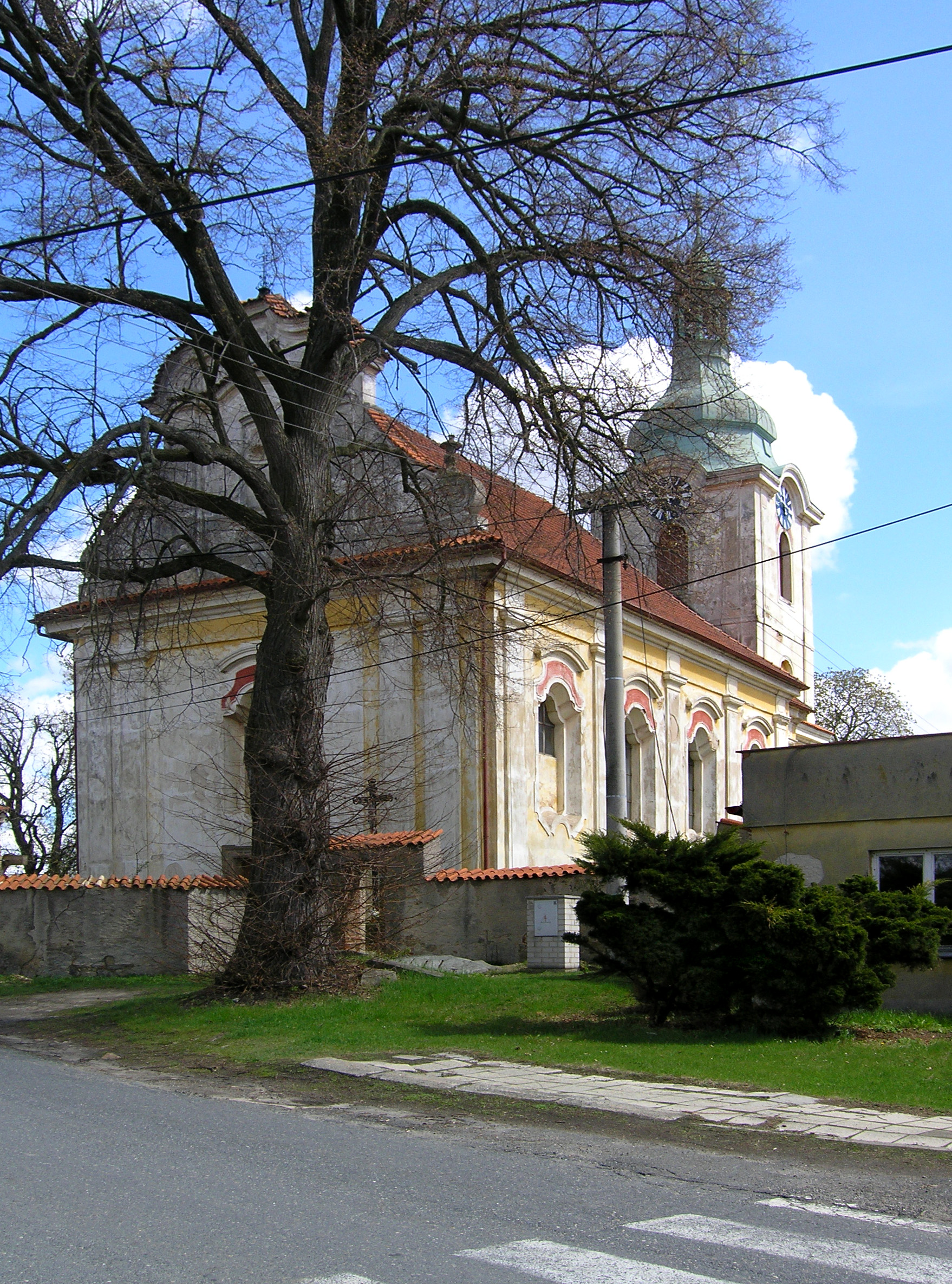 Saint Wenceslas Church in Horní Kruty, Czech Republic